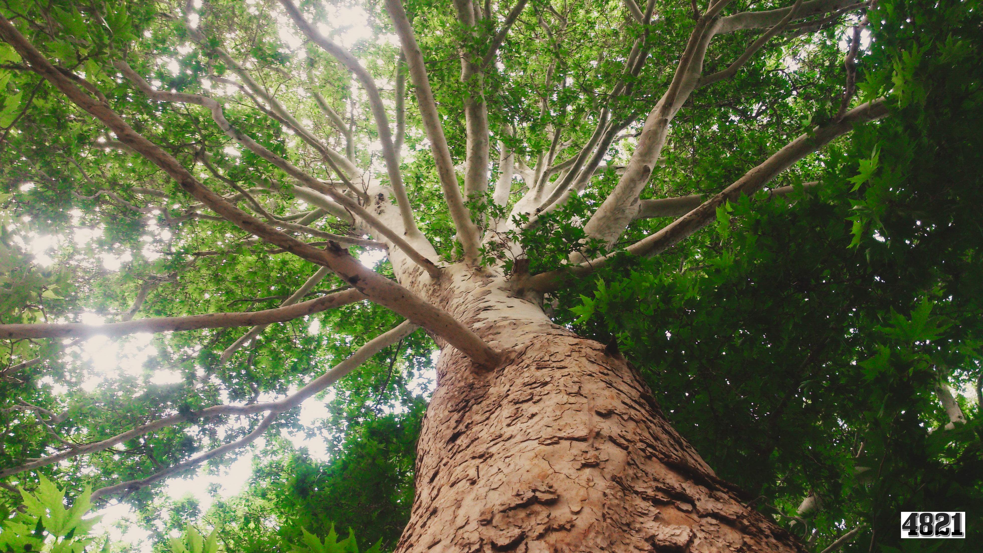 old chinar